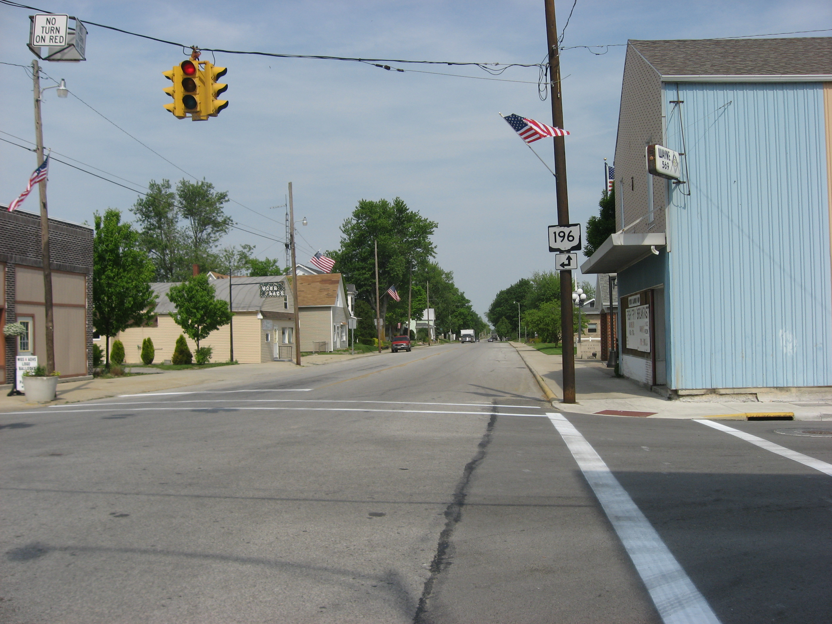 Eastward along the concurrent State Routes 67 and 196 at the central intersection of Waynesfield, Ohio, United States.